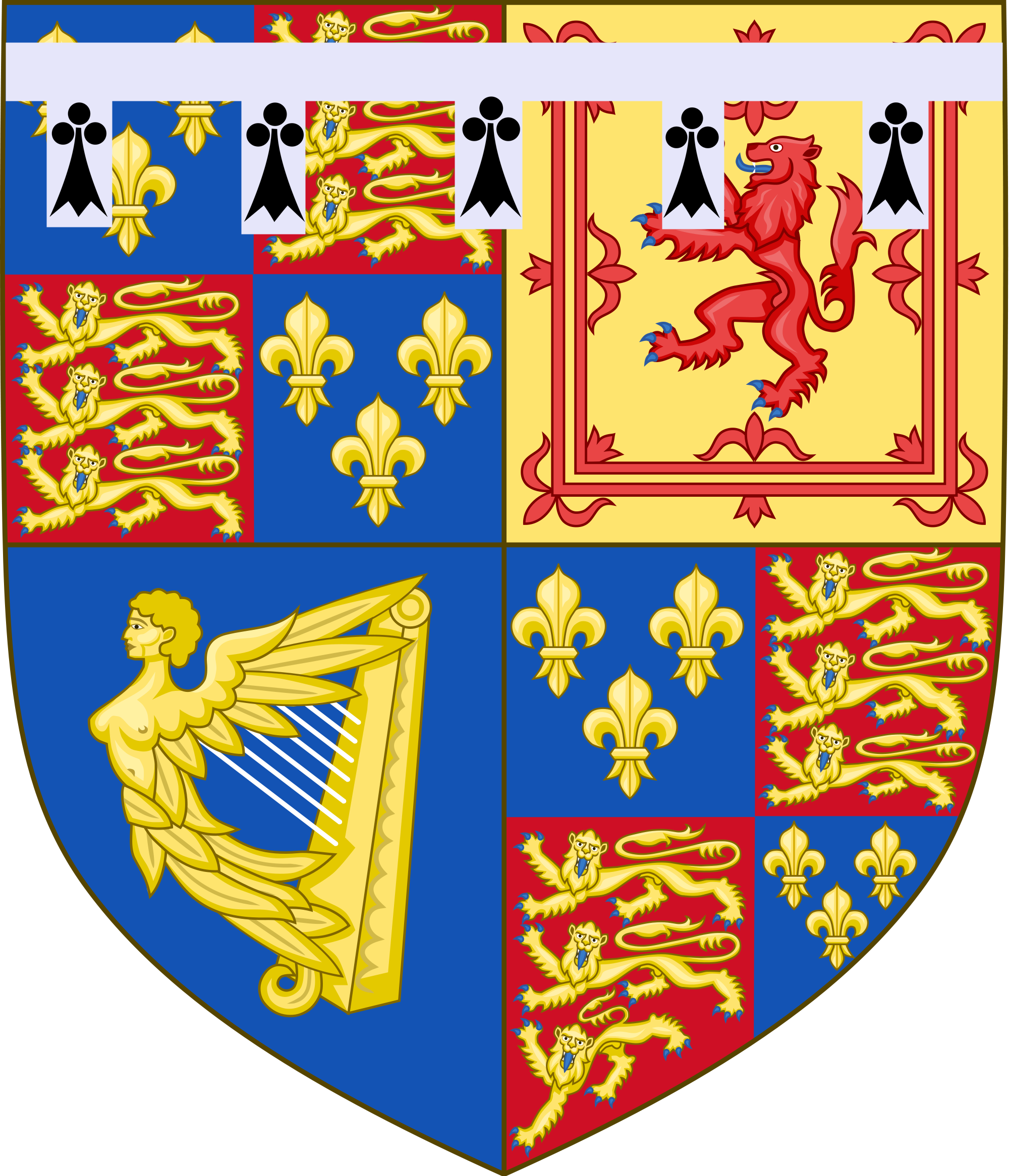 This image was created with Inkscape.